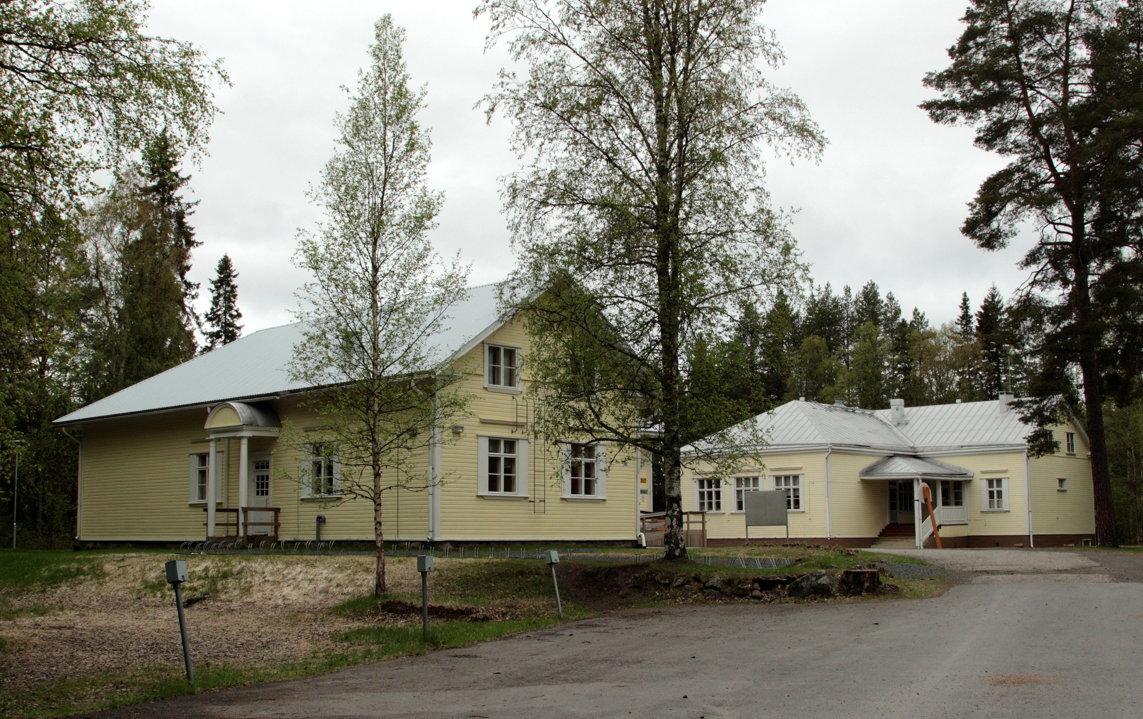 The Parkumäki elementary school in the Martinniemi district of Oulu.